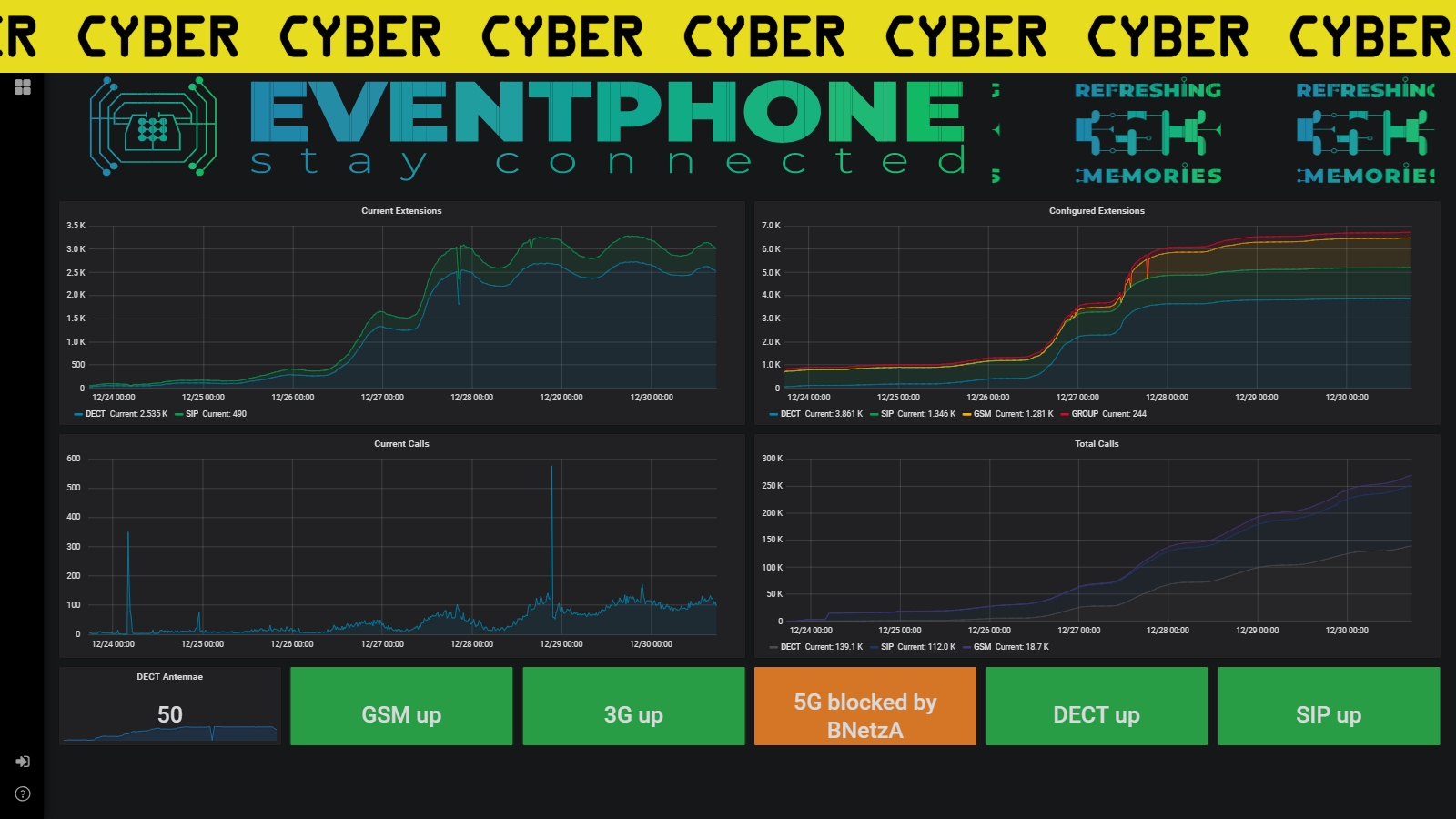 Screenshot of the dashboard of the Phone Operation Center (PoC) at the end of the 35th Chaos Communication Congress (35C3) in Leipzig on 30.12.2018 at 17:26. 3861 registered DECT devices (2535 of them just registered in the network) 1346 registered SIP extensions (of which 490 are currently online) 1281 registered GSM extensions 244 configured call groups 139,100 DECT telephone calls 112,000 SIP phone calls 18,700 GSM telephone calls